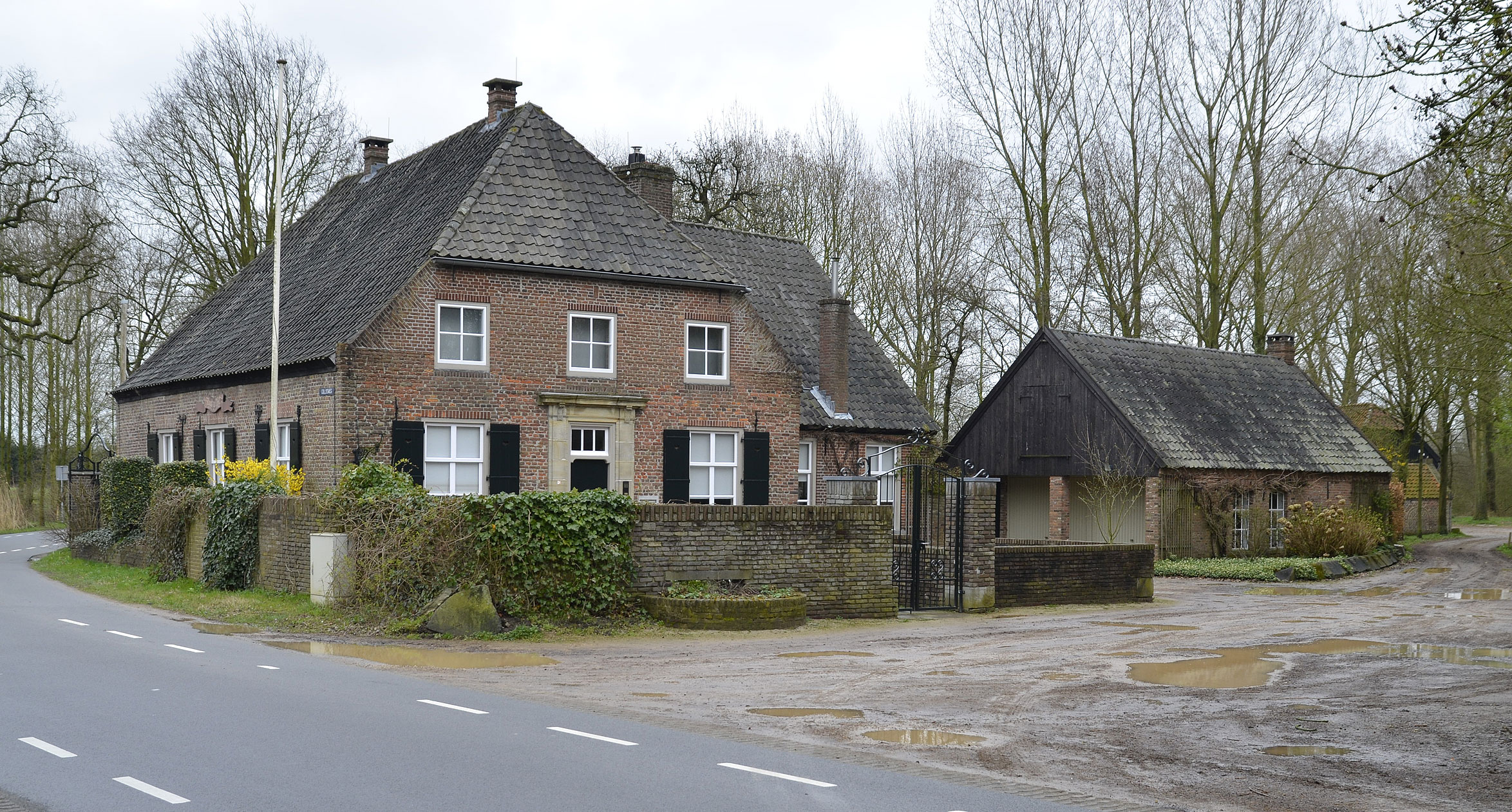 't Huys to Coll, Collseweg 1, Eindhoven